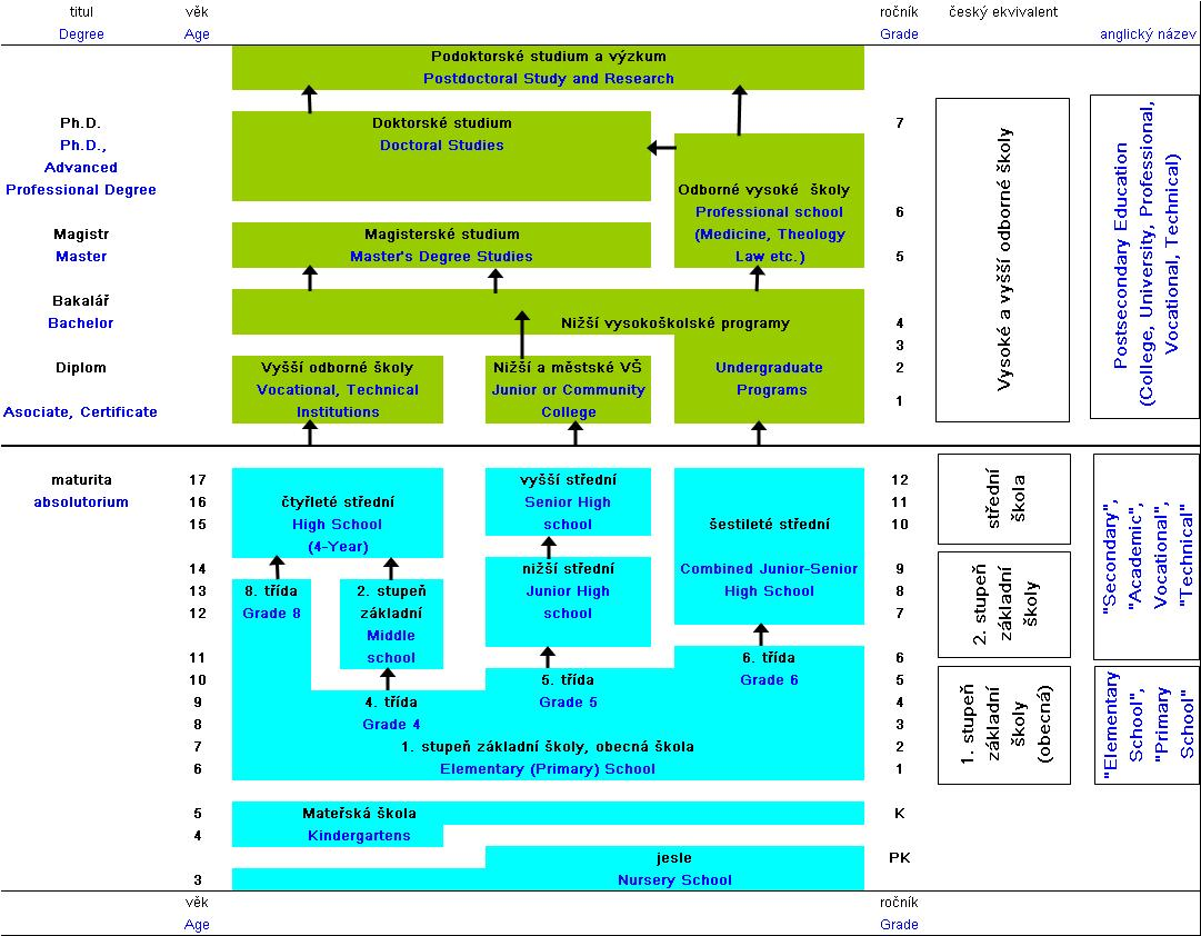 Education in USA, diagram